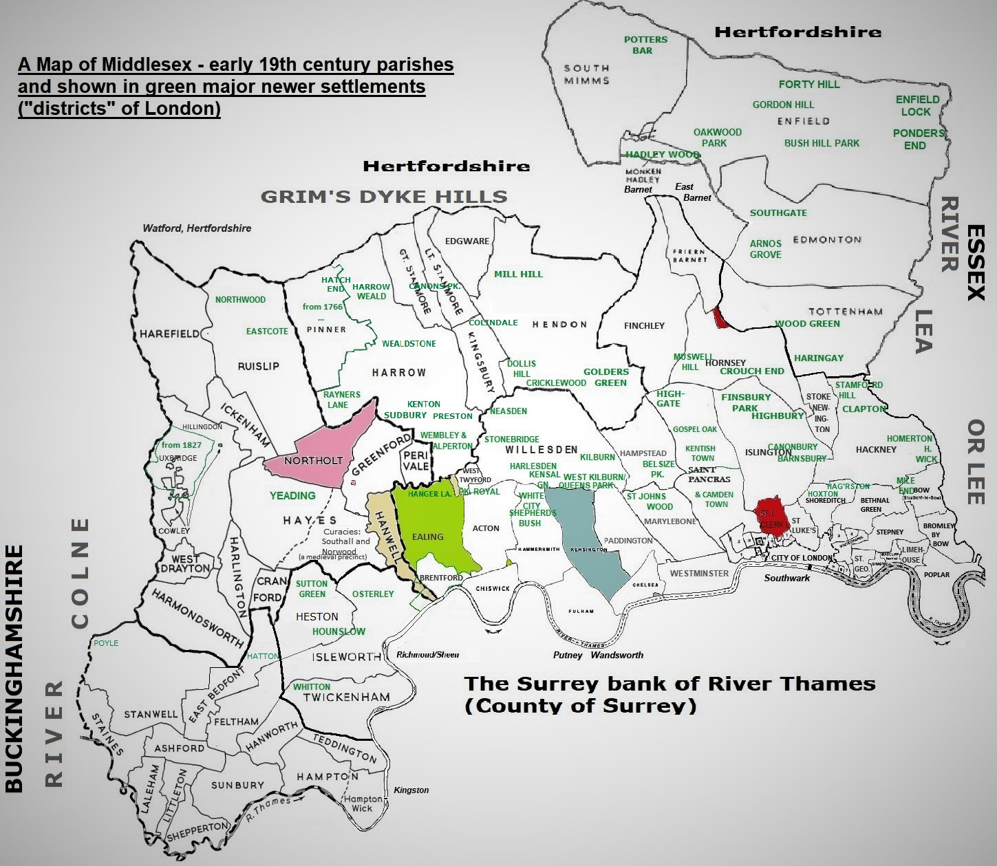 The parishes (key parent parishes) for all settlements and later ecclesiastical Church of England parishes.